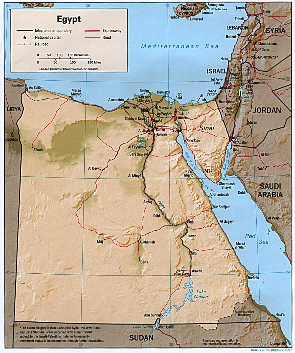 Shaded relief map of Egypt.